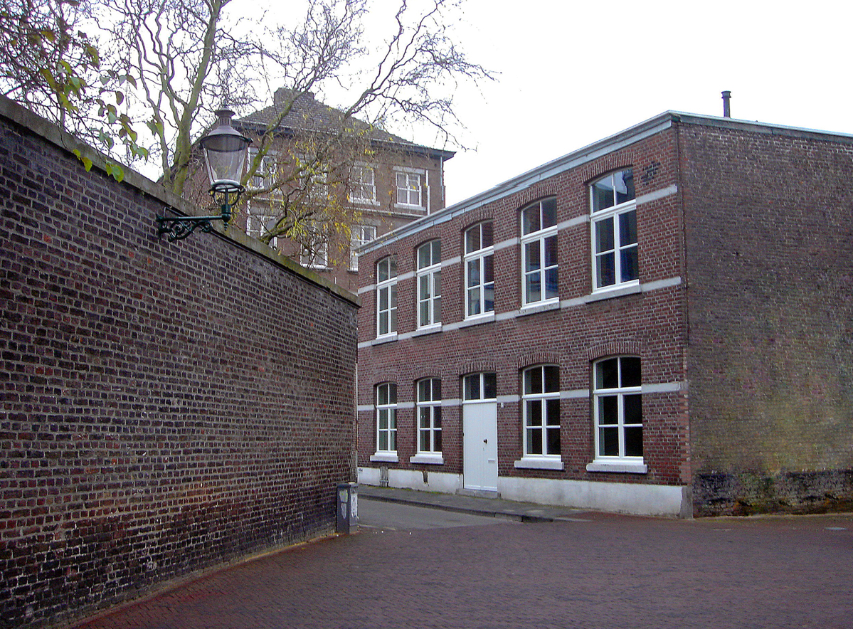 Intro in situ, Capucijnengang 12, Maastricht, The Netherlands